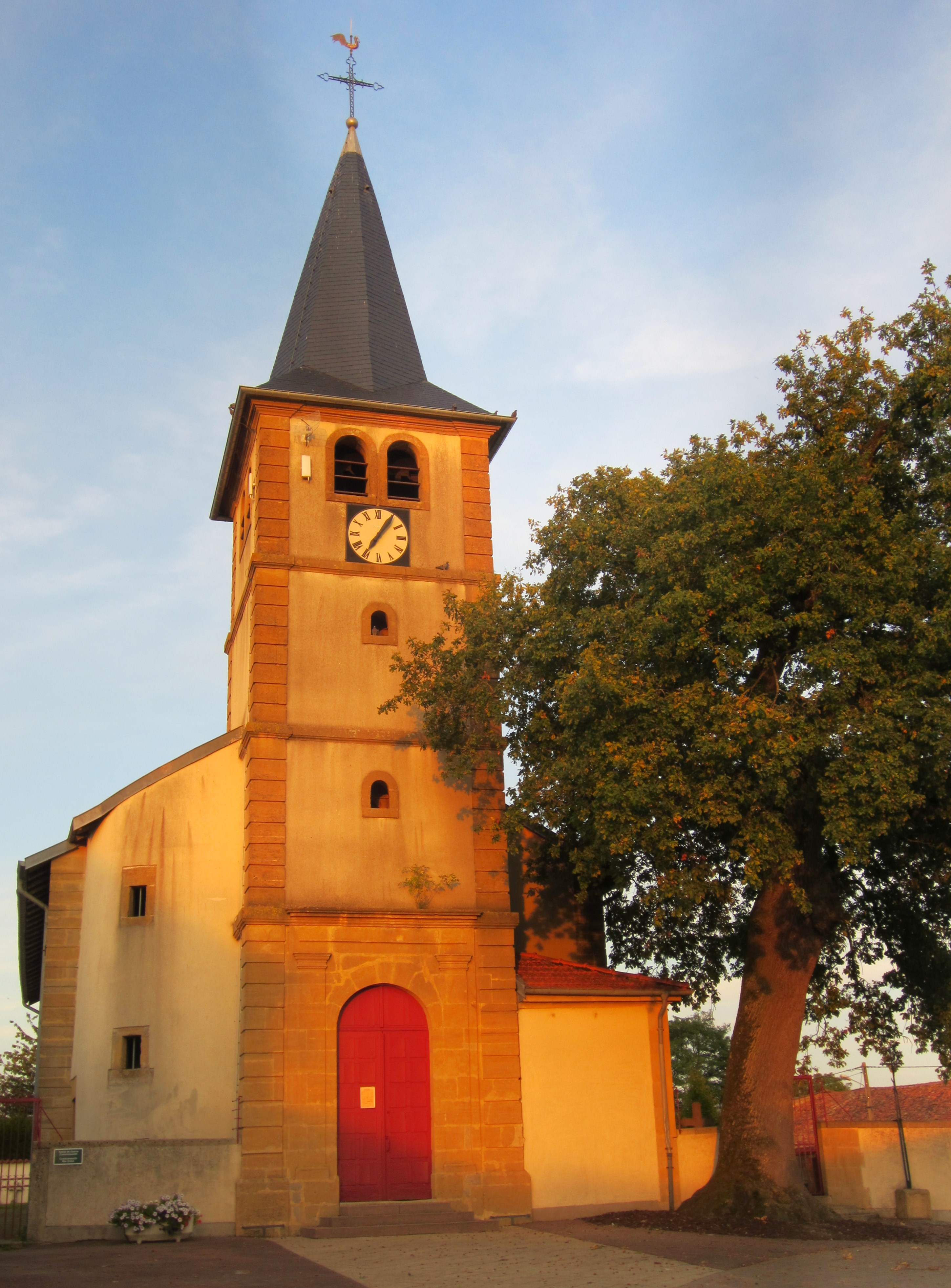 Description eglise Abbeville Conflans Date25 September 2011Sourcemon appareil photoAuthorAimelaimePermission(Reusing this file) eglise Abbeville Conflans